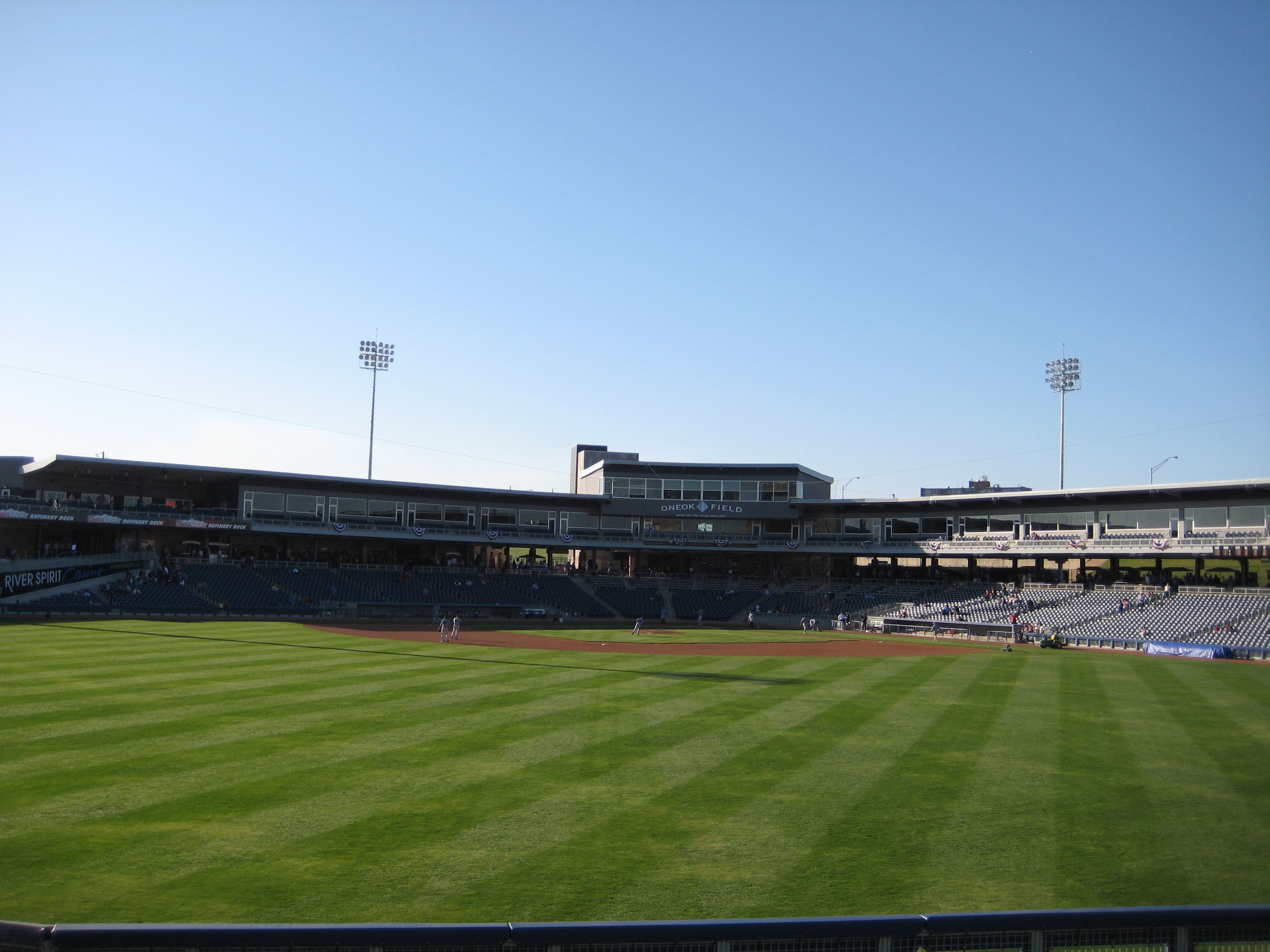 A view of the minor league baseball park in Tulsa, Oklahoma for the double-A Tulsa Drillers. The picture is taken from left-center field before the 2nd game in the new stadium.